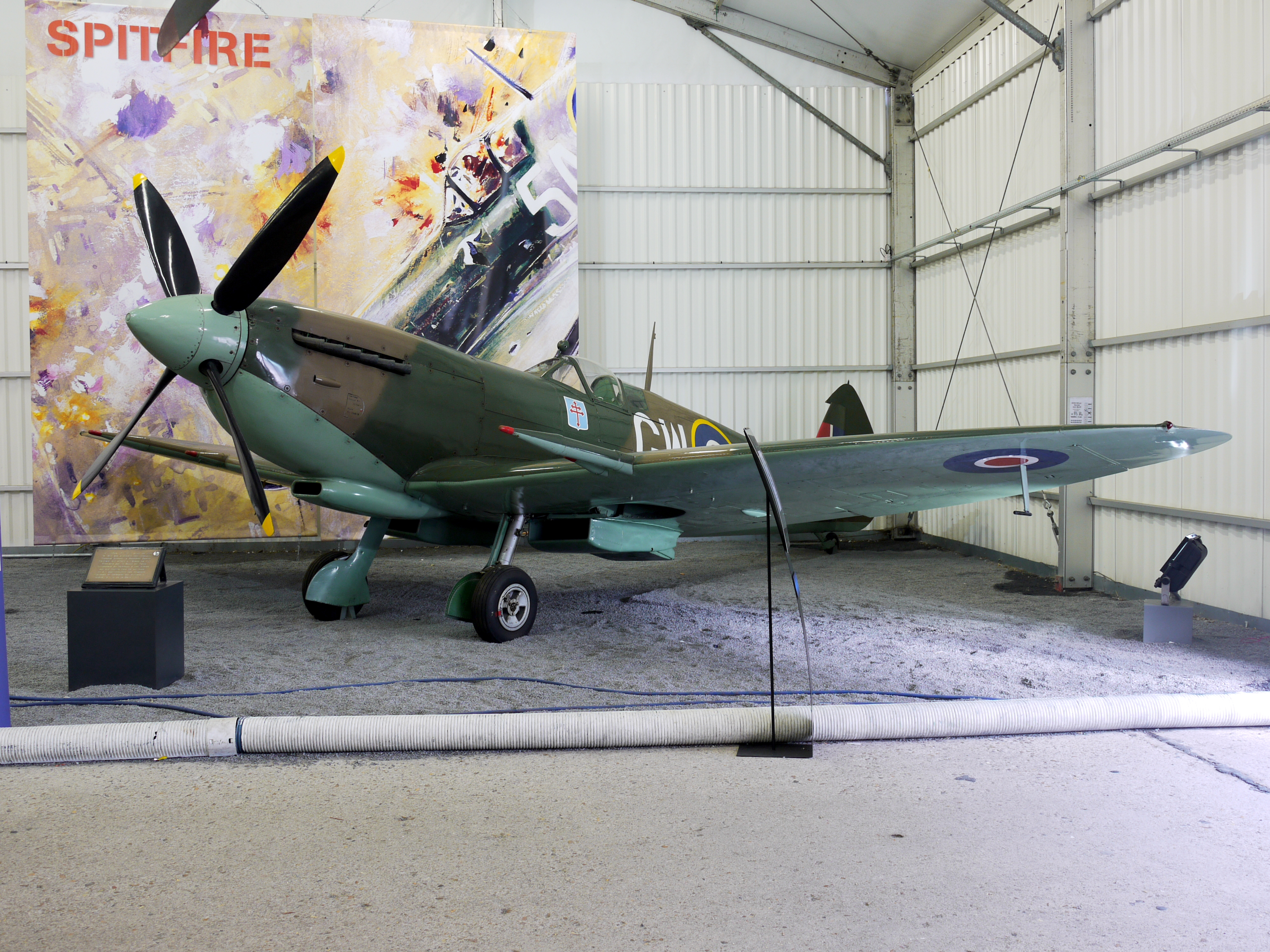 British-built French single-seat fighter aircraft Spitfire (1936), Museum of Air and Space Paris, Le Bourget (France)